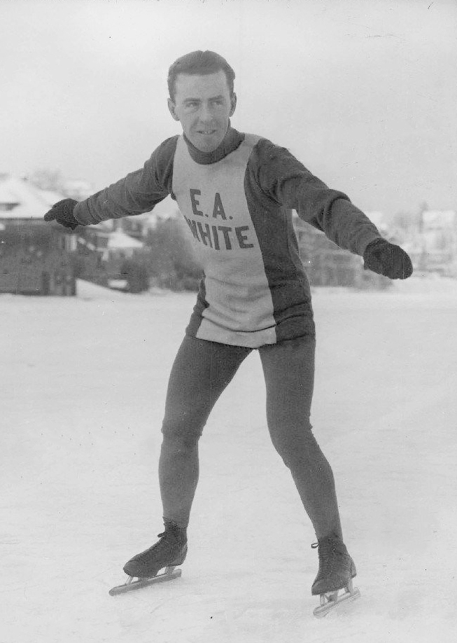 1929 Joe Moore International Skating Champion Olympic Team Sport Press Photo